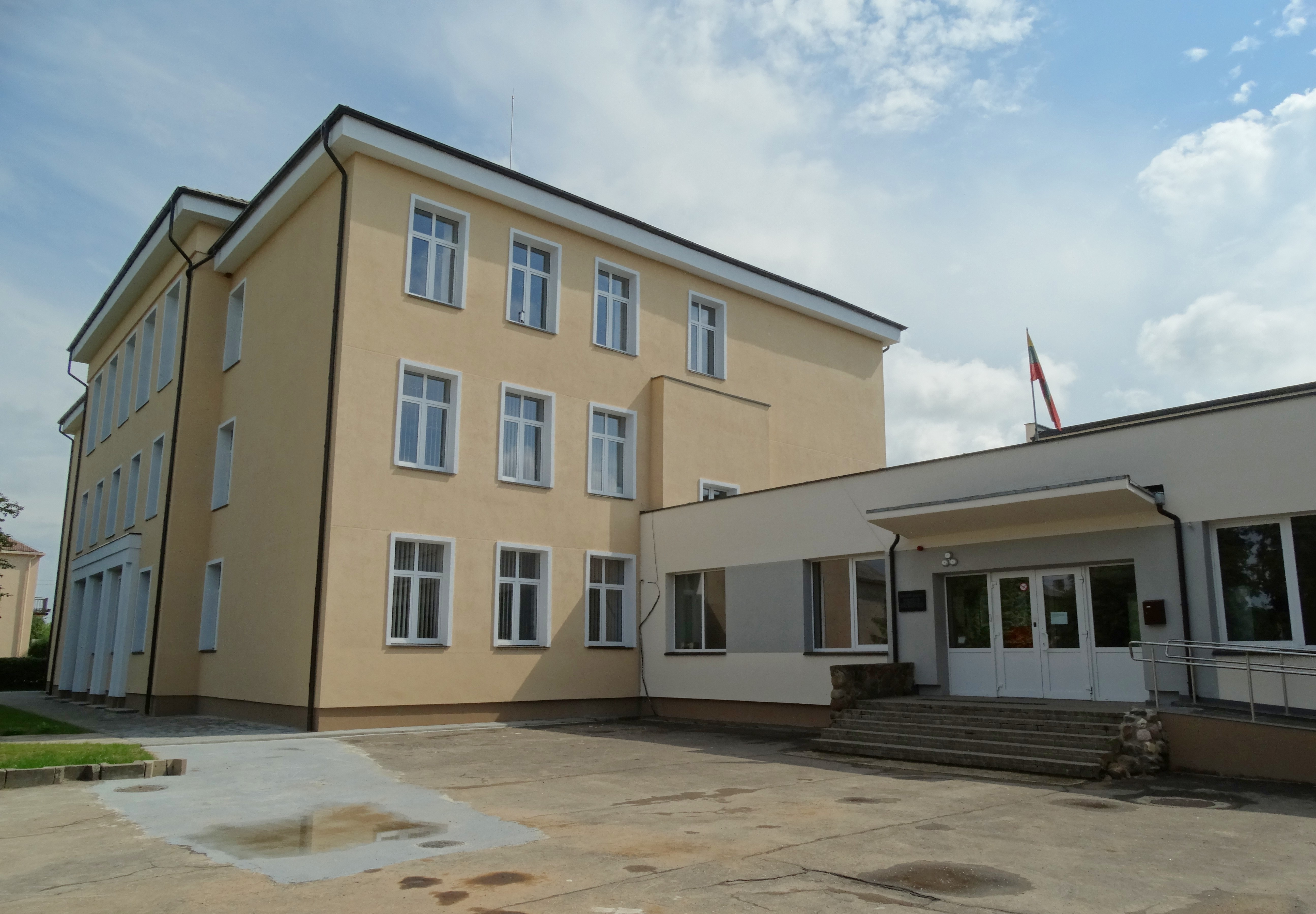 Gymnasium, Venta, Akmenė district, Lithuania